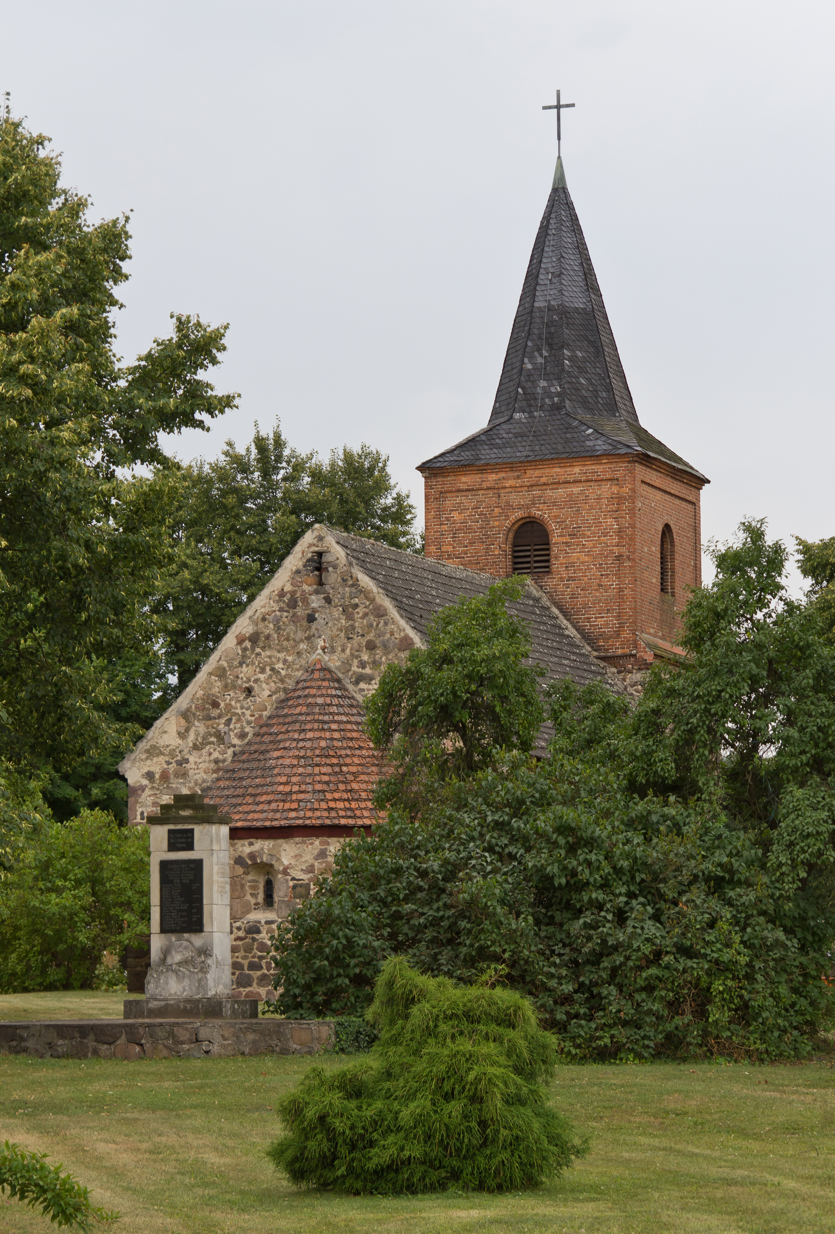 Village church in Haseloff (Mühlenfließ), Brandenburg, Germany